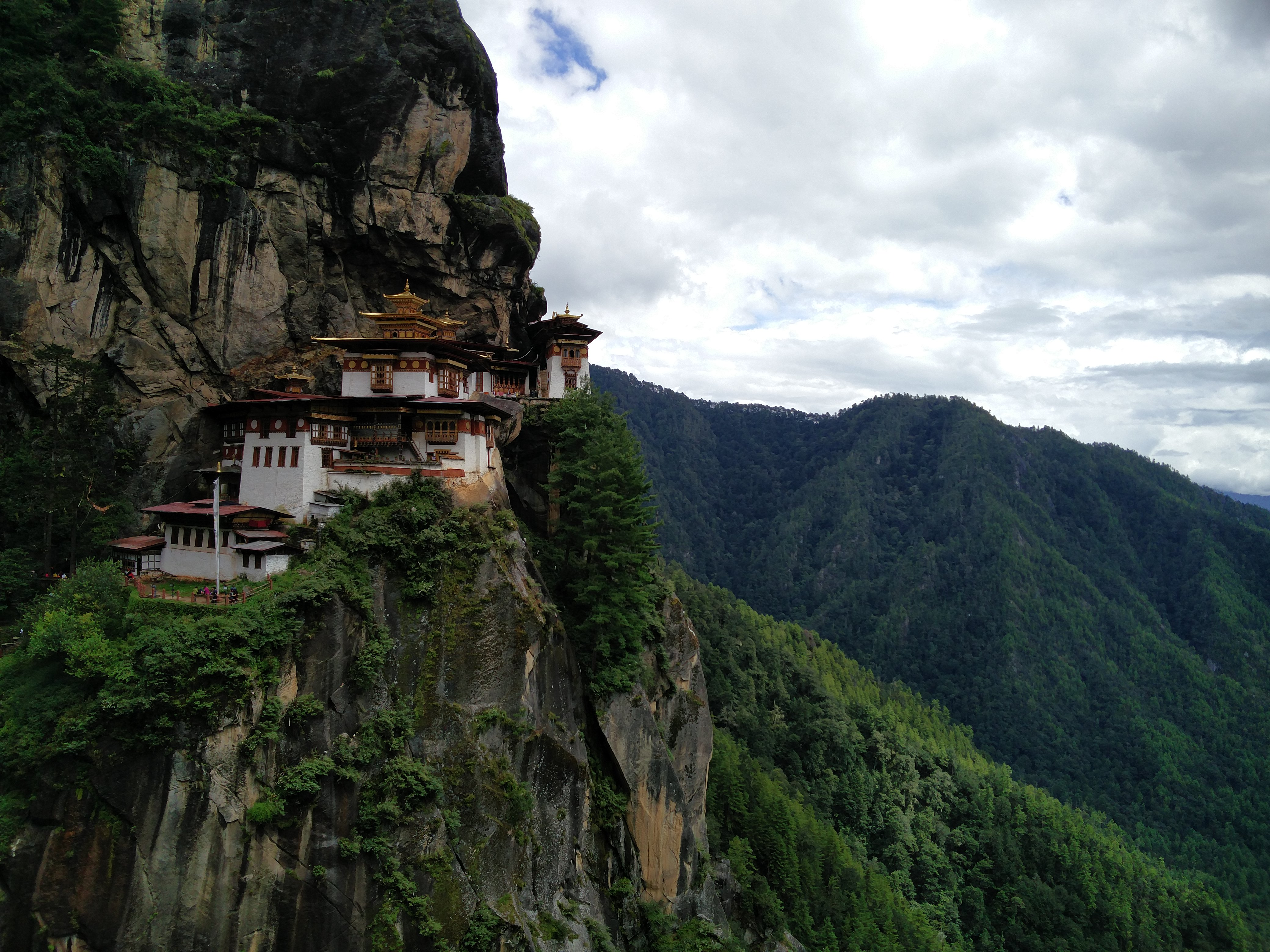 Paro Taktsang, View from the steps